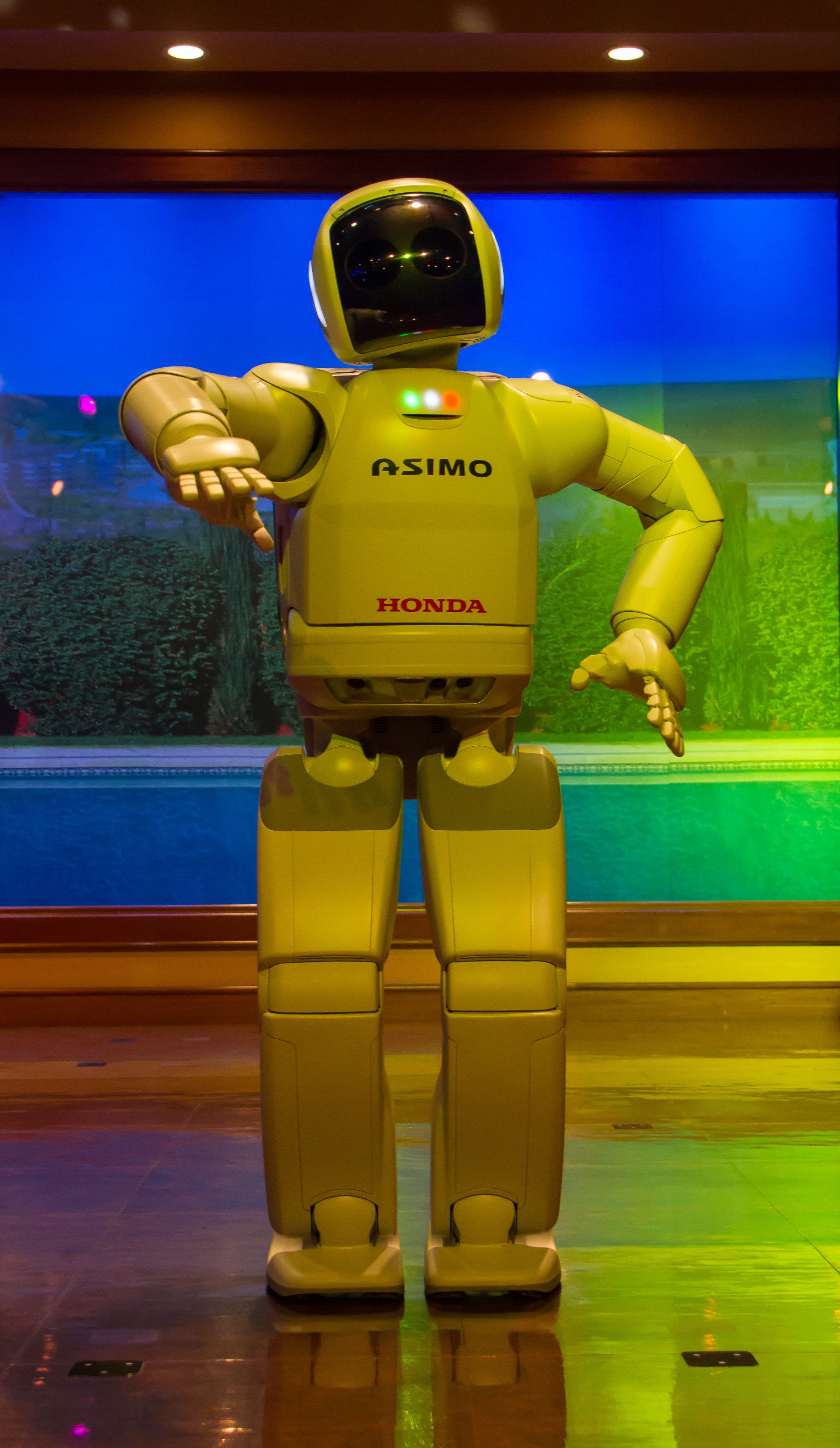 Photo by